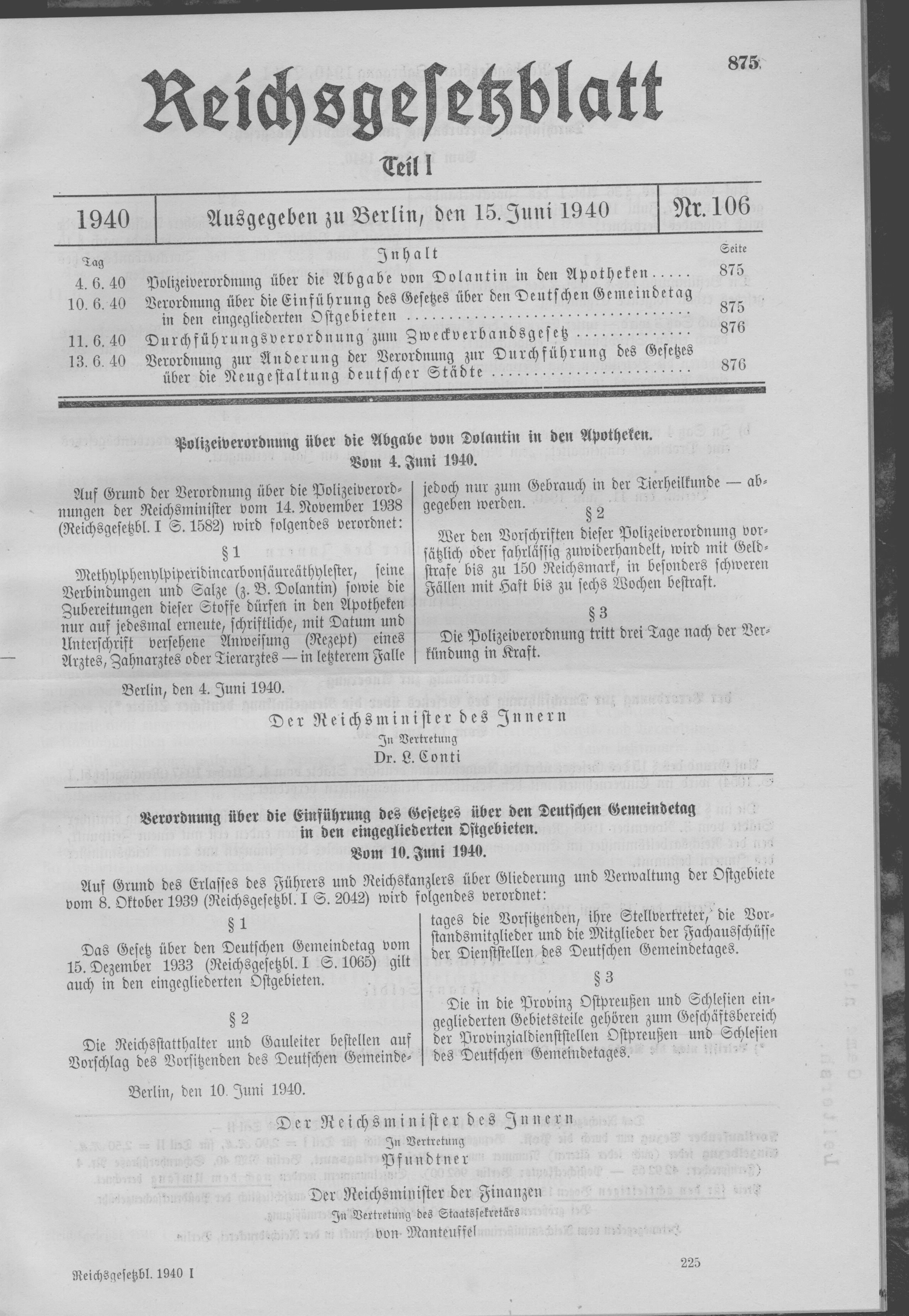 Scan from the Imperial Law Gazette of Germany, 1940, part 1